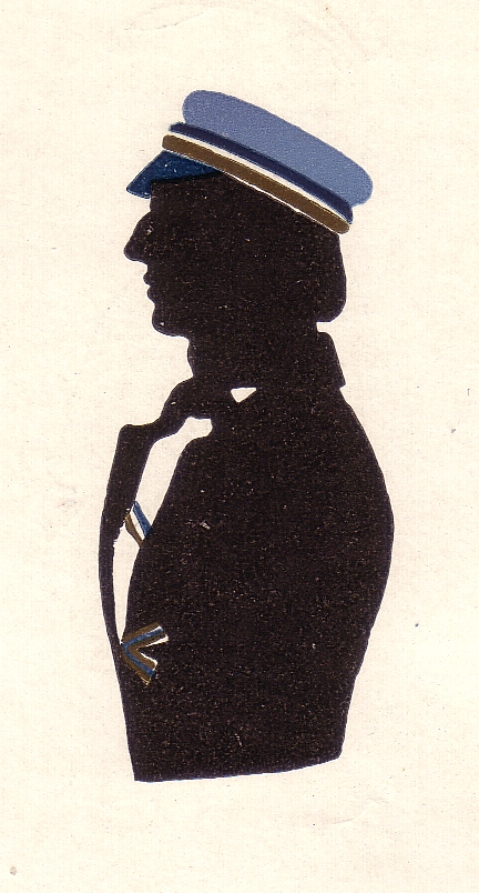 Joseph Victor von Scheffel (February 16, 1826 - April 9, 1886) as student